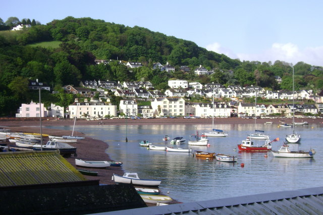 Shaldon across Teignmouth Harbour North-facing Shaldon enjoys early-morning sun. The coast road to Torquay climbs above the village. One local map calls the hill beyond Picket Head Hill.